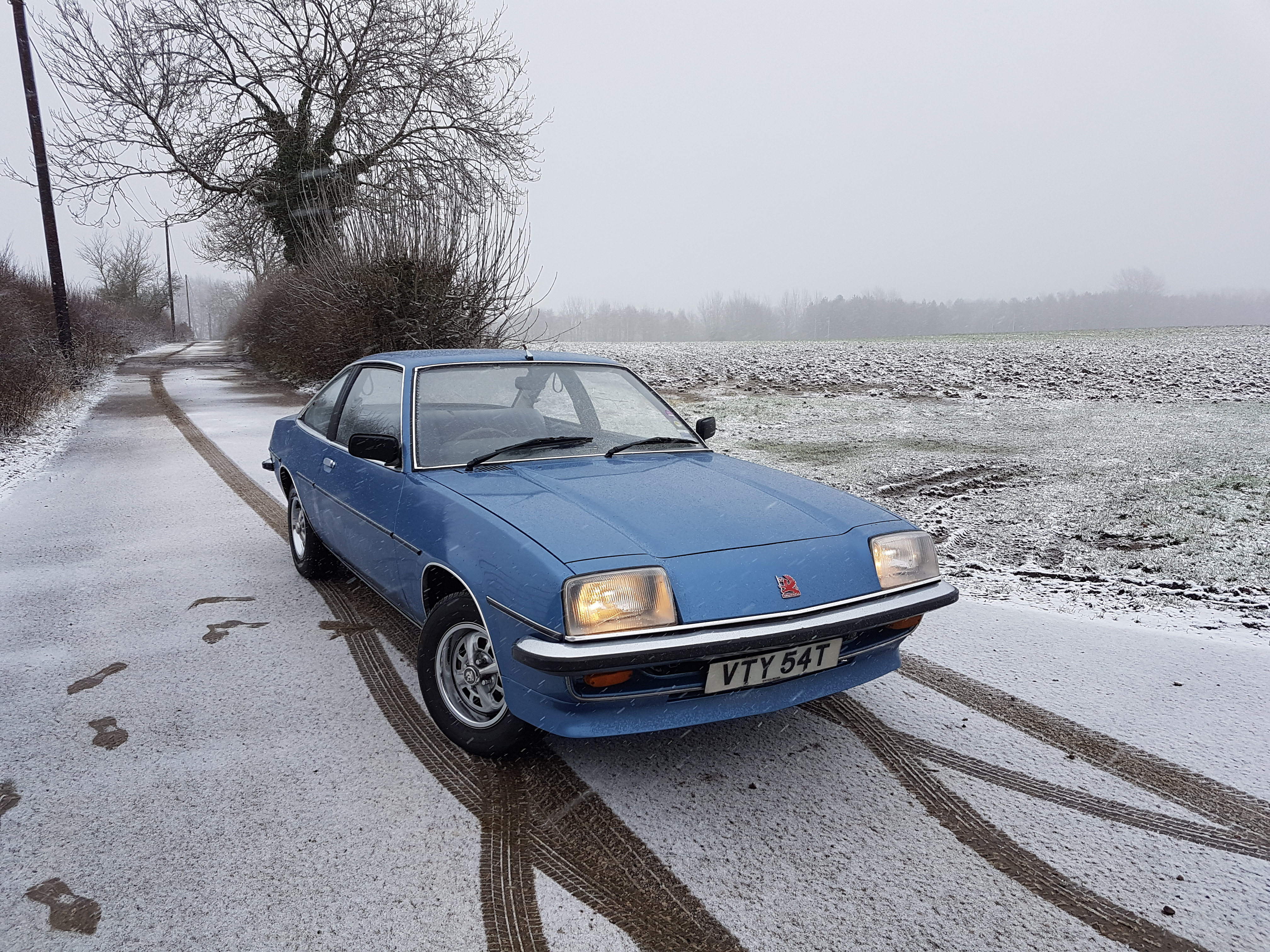 A 1978 MK1 Vauxhall Cavalier Coupe